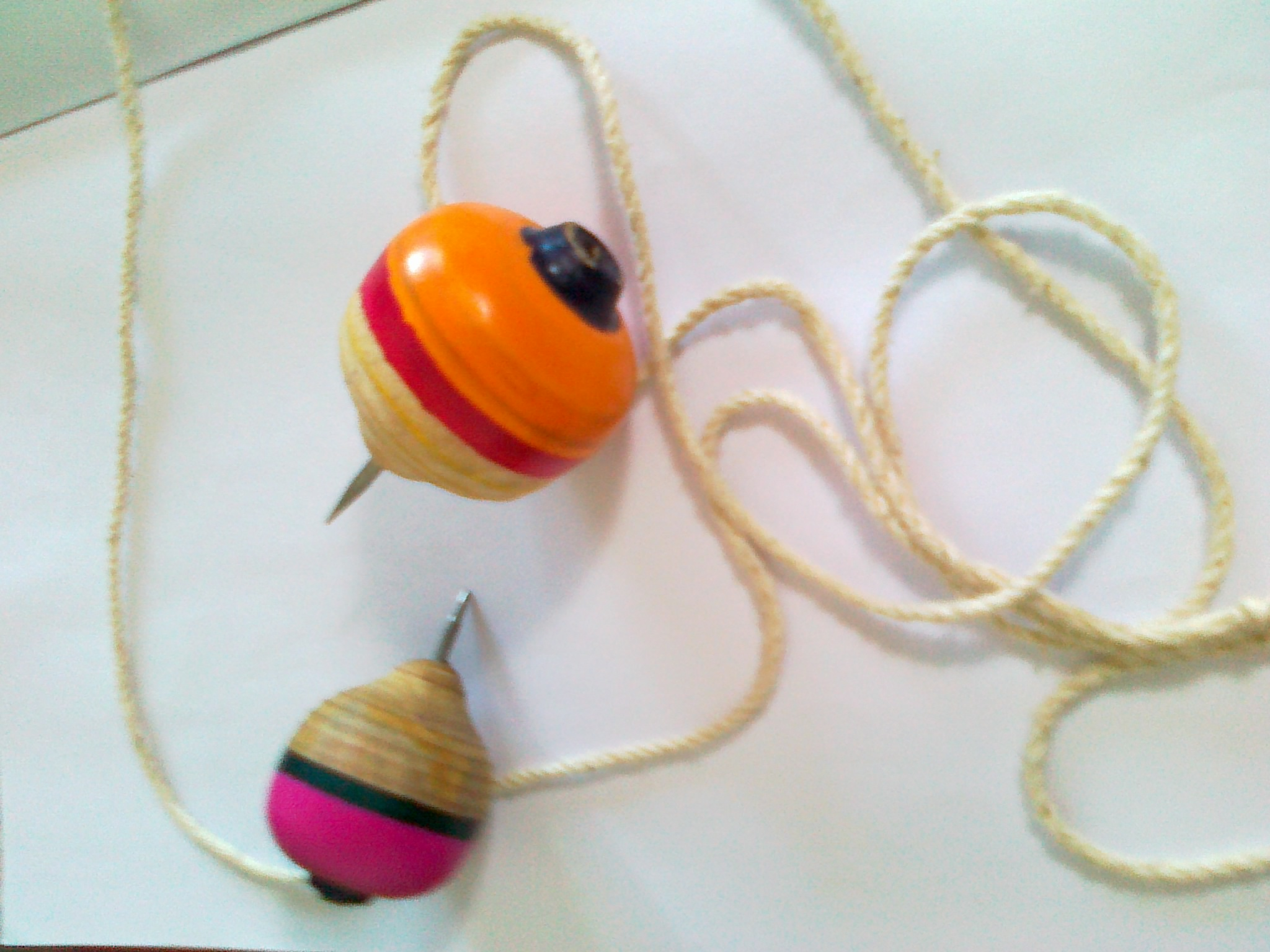 this is a toy used to play "Tops". One of the popular games in India. ଓଡ଼ିଆ: ଏଇଟି ନଟୁ ଓ ସେଥିରେ ବ୍ୟବହୃତ ସୁତୁଲି । ଏଠାରେ ଦୁଇ ପ୍ରକାରର ନଟୁ ଚିତ୍ର ଦିଆଯାଇଛି, ଛୋଟ ଓ ବଡ । ଏହି ଖେଳ ଓଡ଼ିଶା ଓ ଭାରତର ଅନ୍ୟାନ୍ୟ ପ୍ରାନ୍ତରେ ଖେଳଯାଏ ।